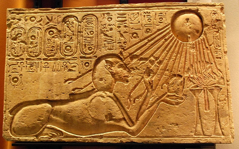 This stone block portrays Akhenaten as a sphinx, and was originally found in the city of Amarna/Akhetaten. This object is now located in the Kestner Museum of Hanover, Germany.